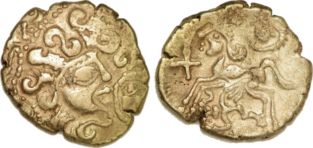 Statère d'électrum au personnage recroquevillé ailé, à la tête coupée et à la croix frappé par les Vénètes Date : c. 80-50 AC. Description revers : Cheval androcéphale à gauche ; un petit personnage recroquevillé et ailé entre les jambes du cheval ; au-dessus de la croupe, une tête coupée terminée par une croix en guise de stimulus devant le poitrail du cheval . Description avers : Tête stylisée à droite, la chevelure composée de cinq mèches en esses et en rouleaux, avec une croix au-dessus ; des cordons perlés autour de la tête et une petite tête coupée devant le visage ; le menton est terminé par une sorte d’esse .